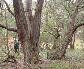 A poor photo, but the only thing I seem to have lying around that is suitable. Messmate Stringybark.